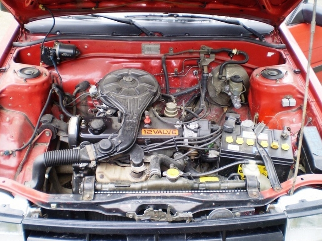 Toyota 2E engine.